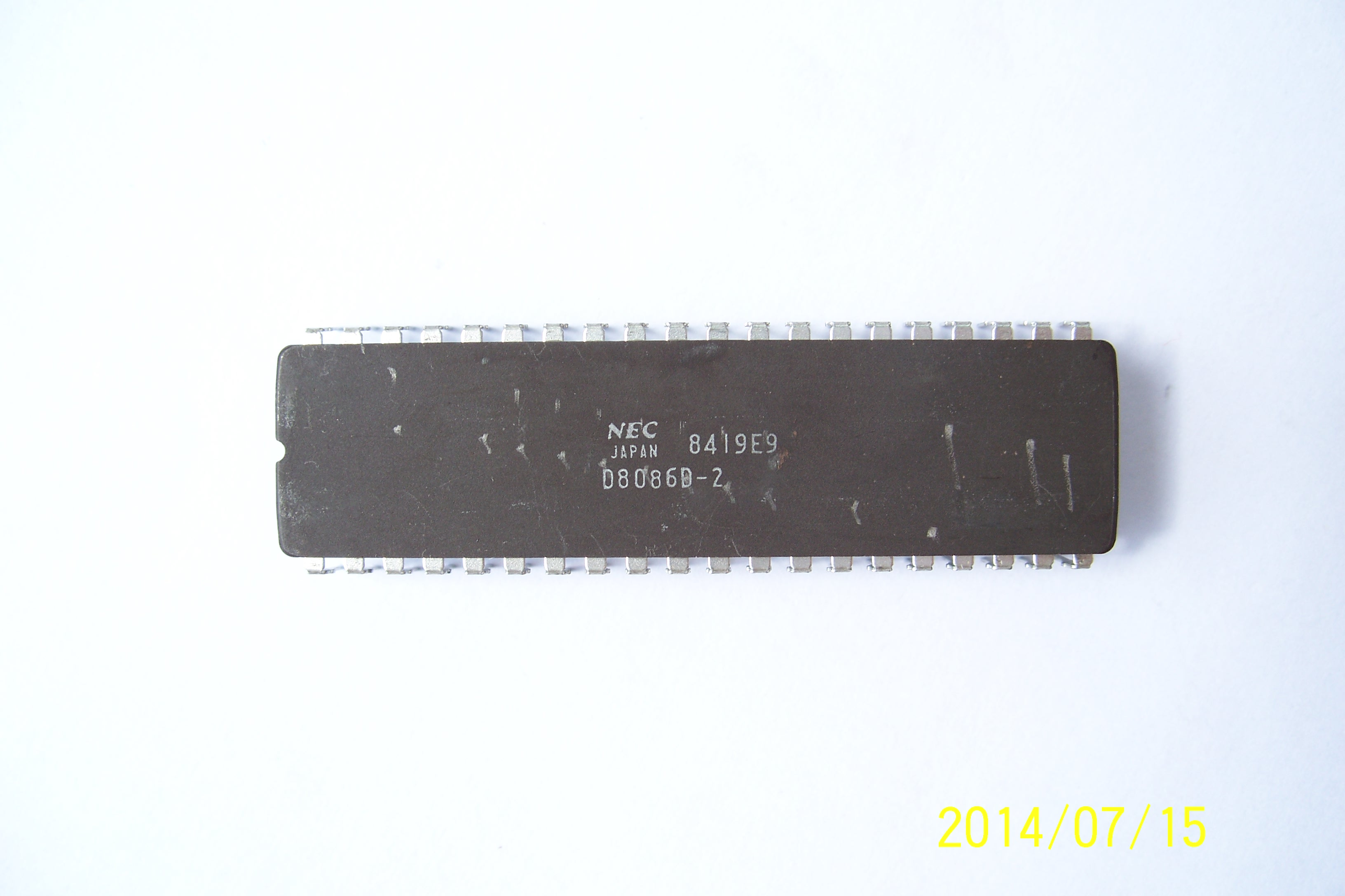 NEC microprocessor uPD8086D-2 (8MHz) from 1984year 19week JAPAN (clone Intel D8086-2)